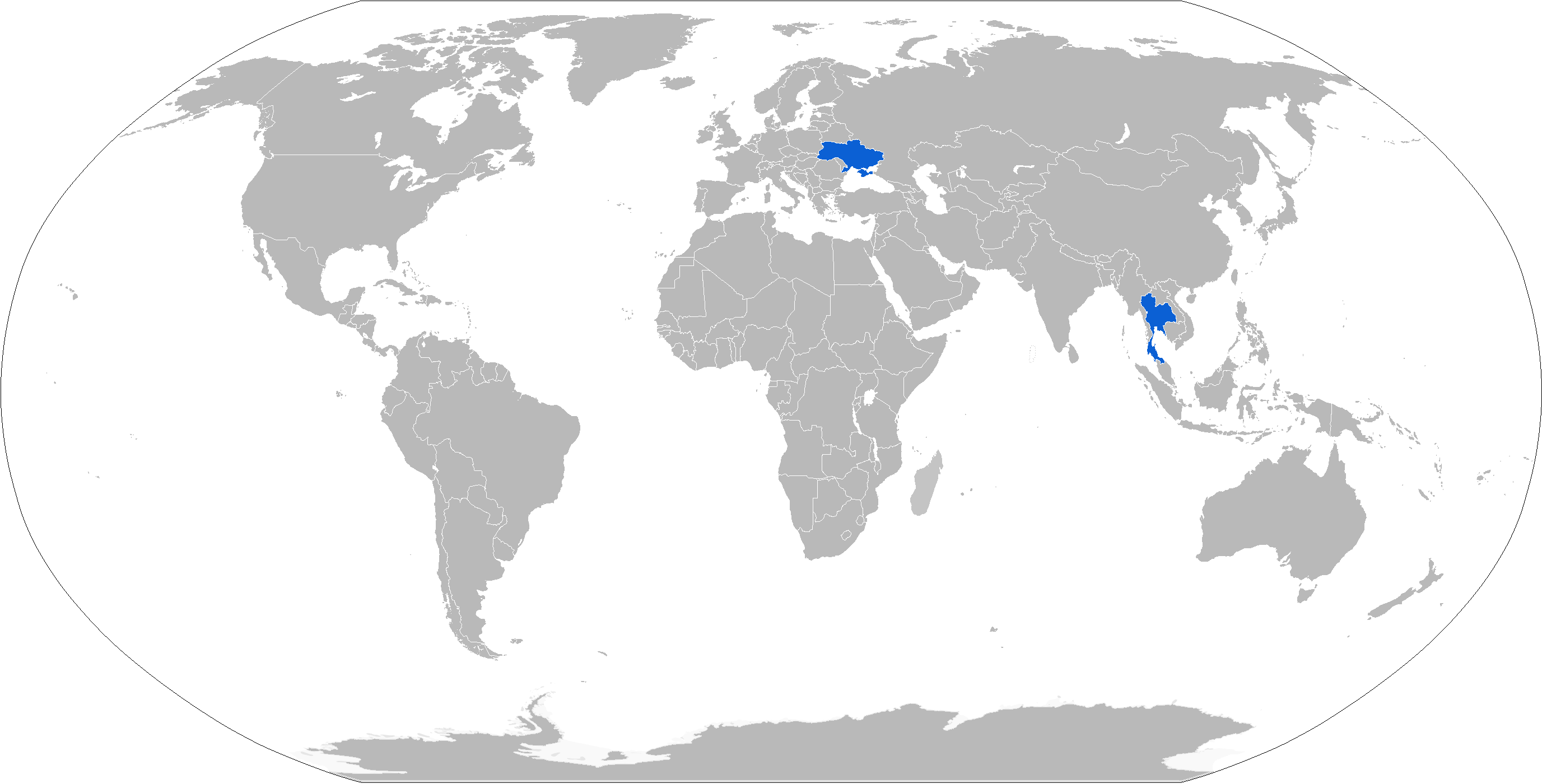 Map of T-84 operators in blue with former operators in red